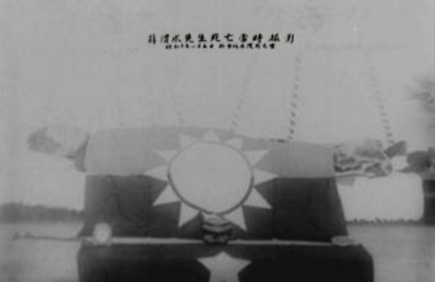 Chiang Wei-shui was covered by Taiwanese People's Party's first flag after passing away.